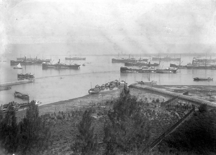 Repro-negative. View of the roads of Wilhelminatoren in Surabaya, Java